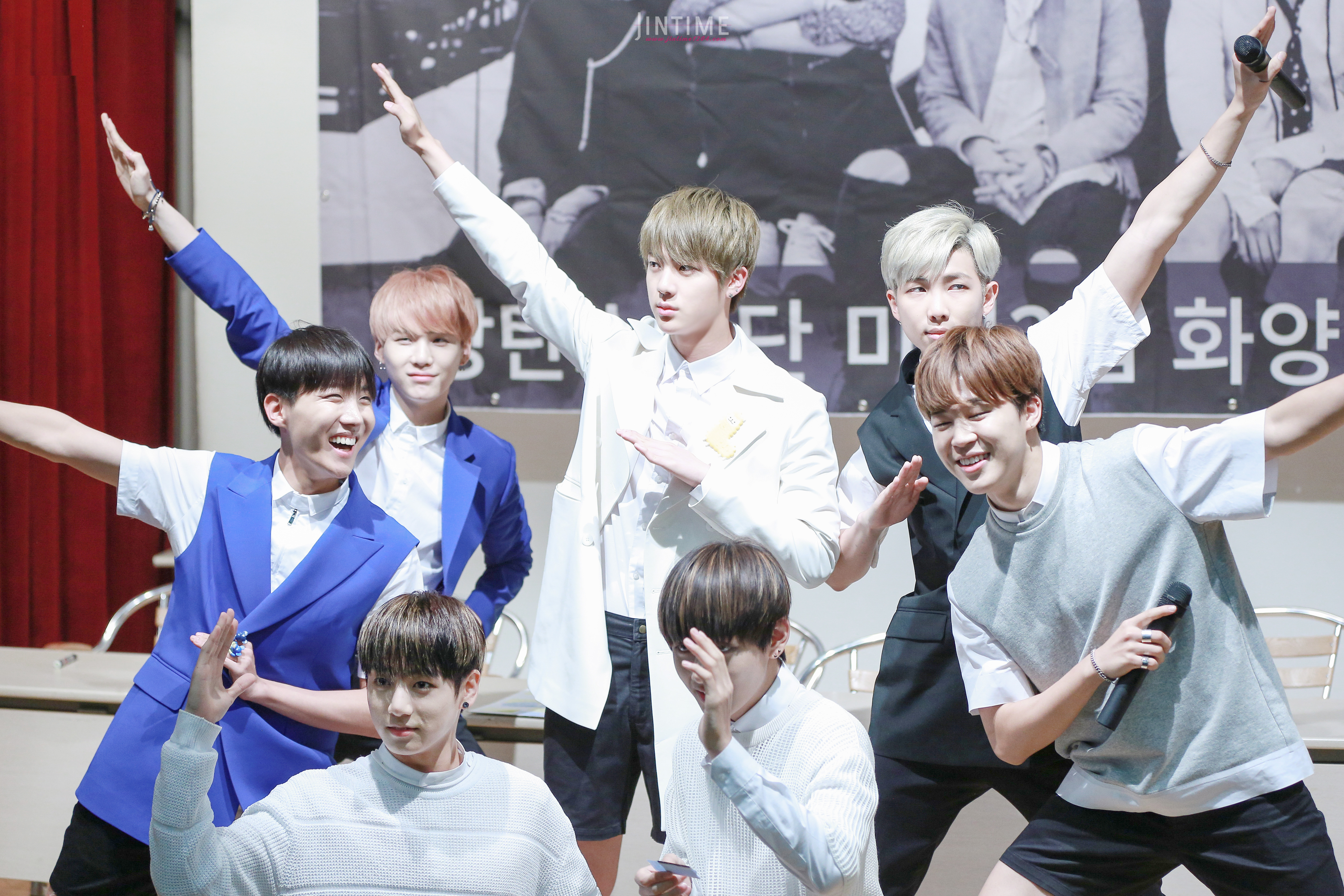 BTS at a fansigning event, 16 May 2015